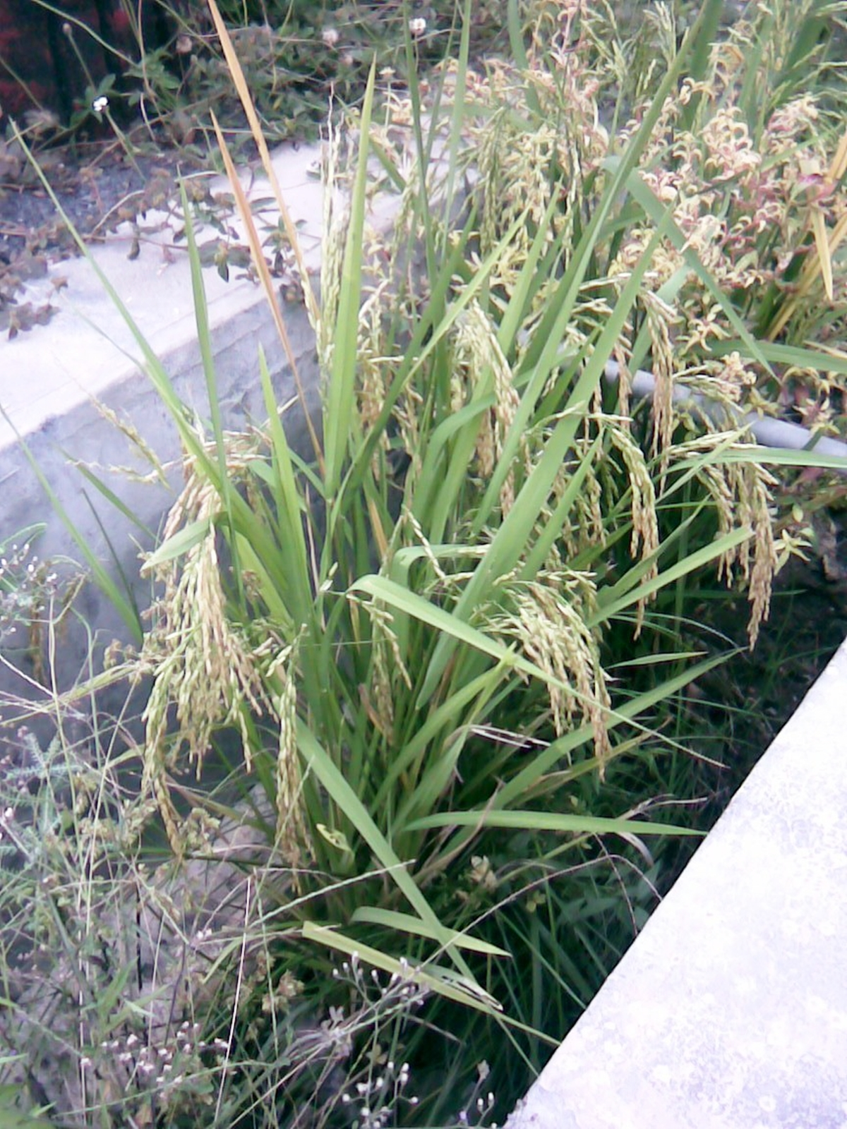 Paddy plant found in a drain in Malaysia